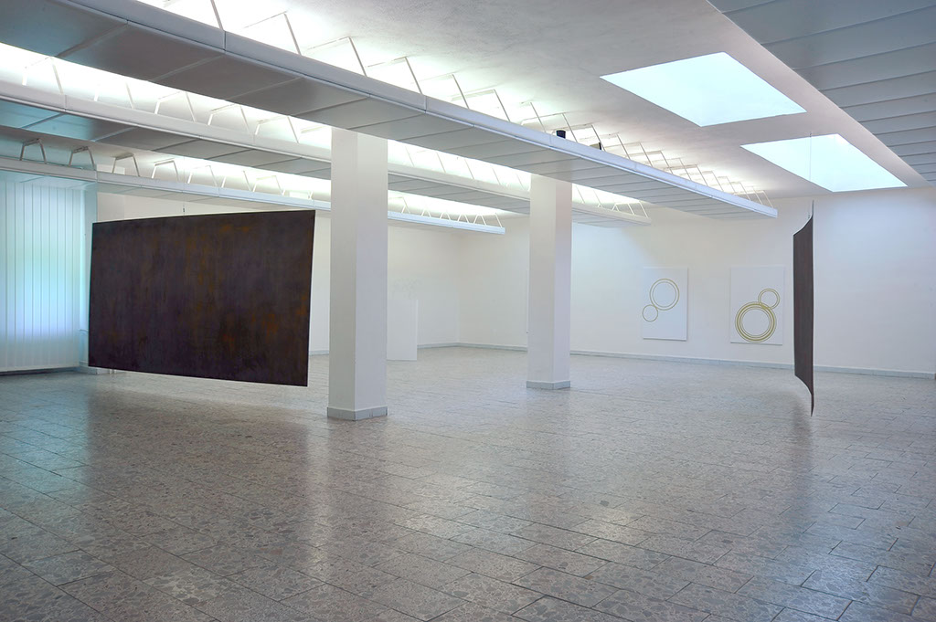 K1 - K2, galerie města Blanska, instalace dvou zavěšených plechů 2x4 m